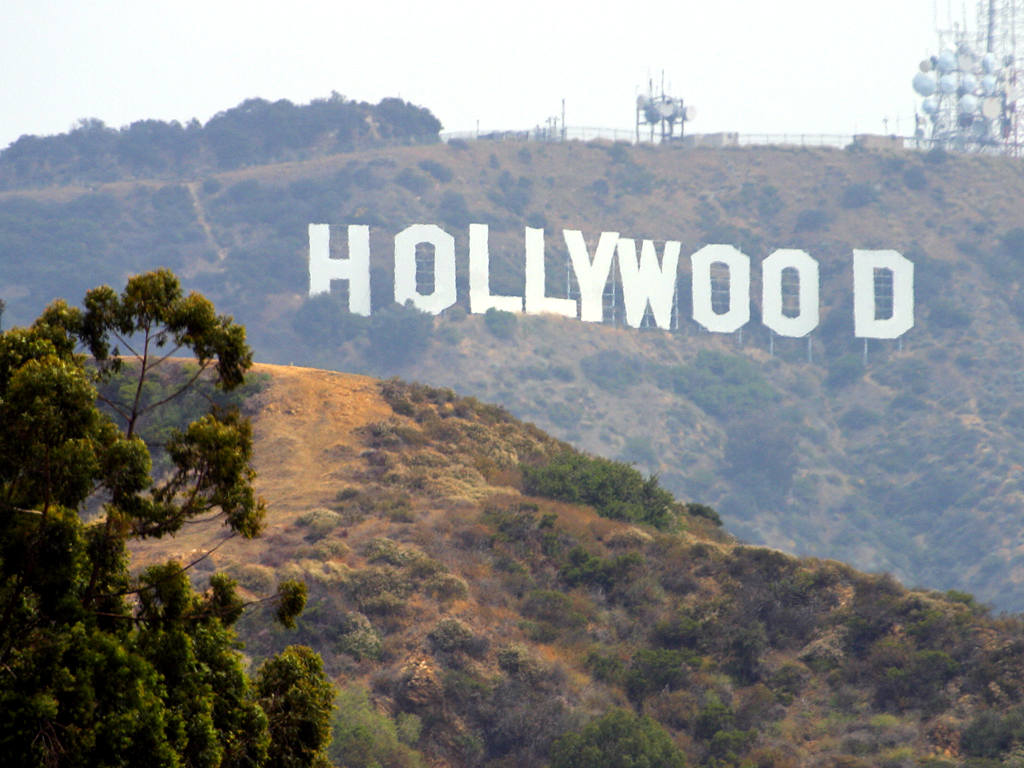 Taken from Hollywood Sign - 2004-05-22 The Hollywood sign seen from Hollywood Blvd.